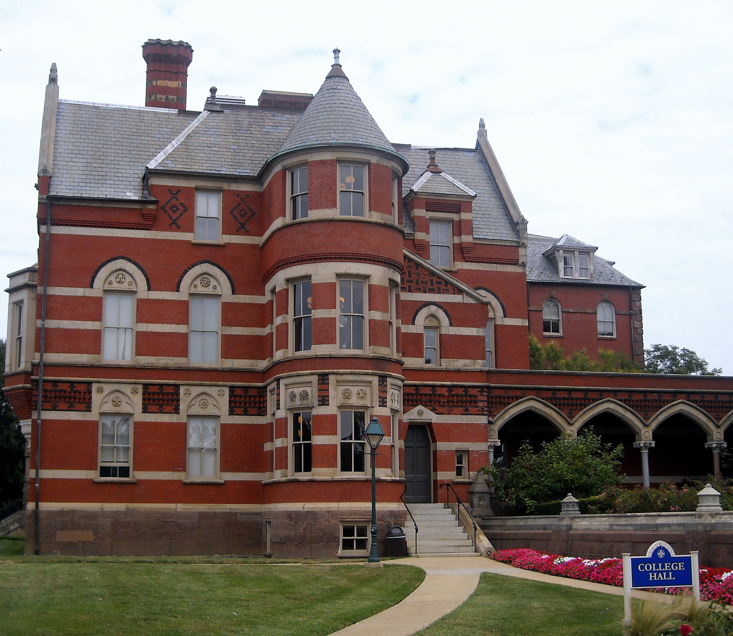 College Hall located on the campus of Gallaudet University in Washington, D.C. The Victorian Gothic building was constructed in 1877 and is a contributing property to the Gallaudet College Historic District, a National Historic Landmark.